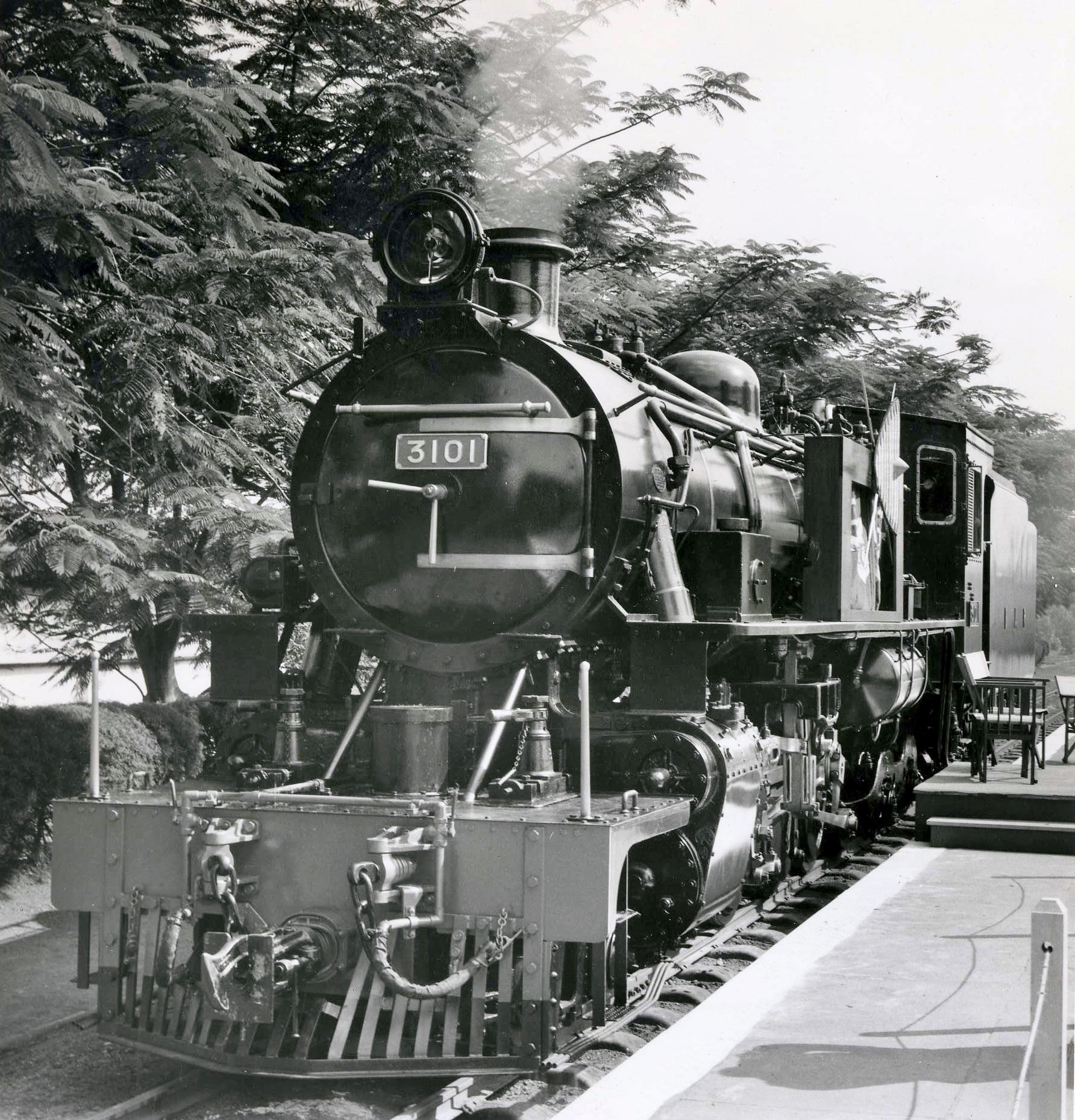 East African Railways 31 class locomotive no. 3101 at the ceremony at which it was named Baganda.